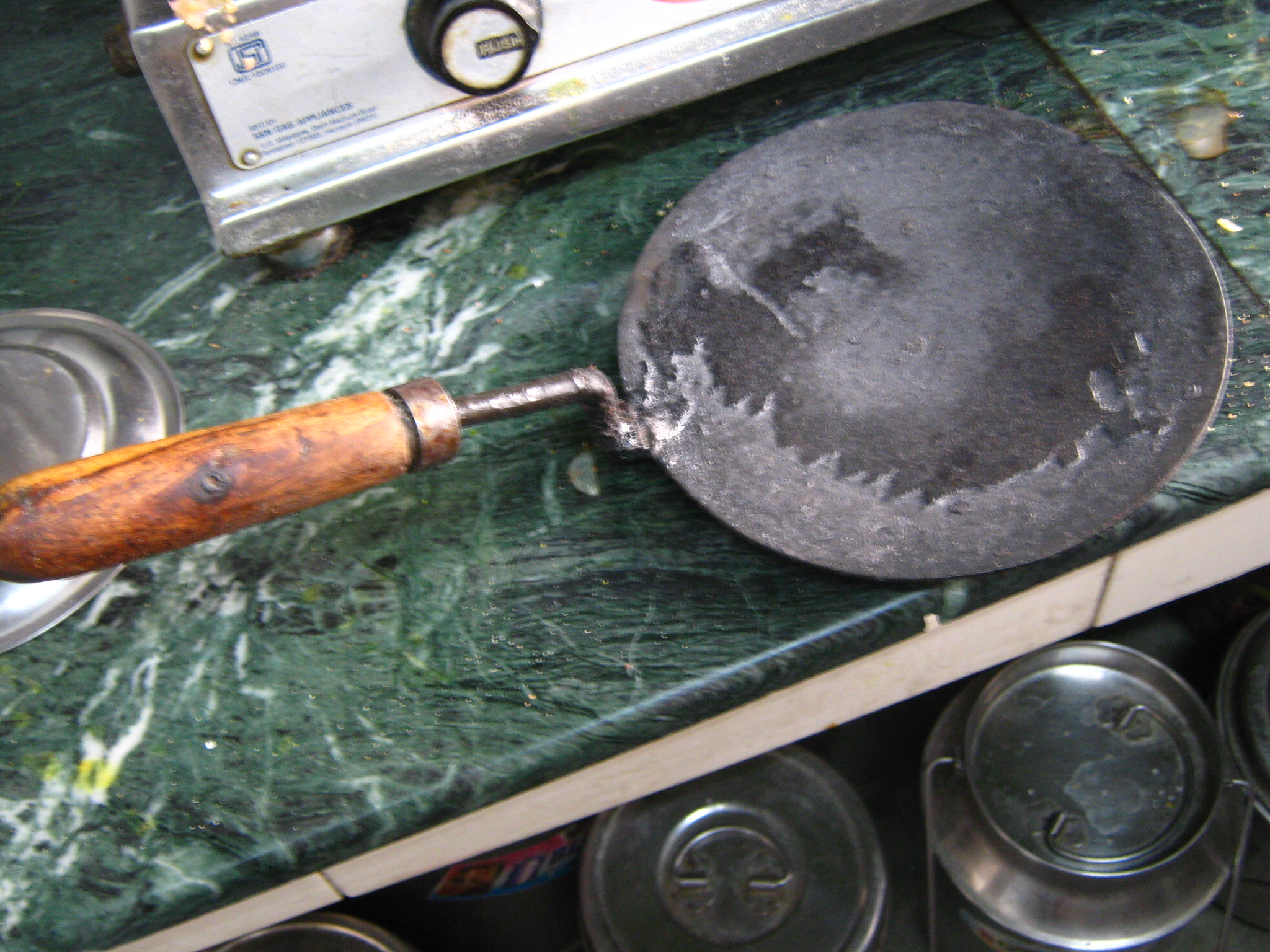 Utensils used in Indian kitchen